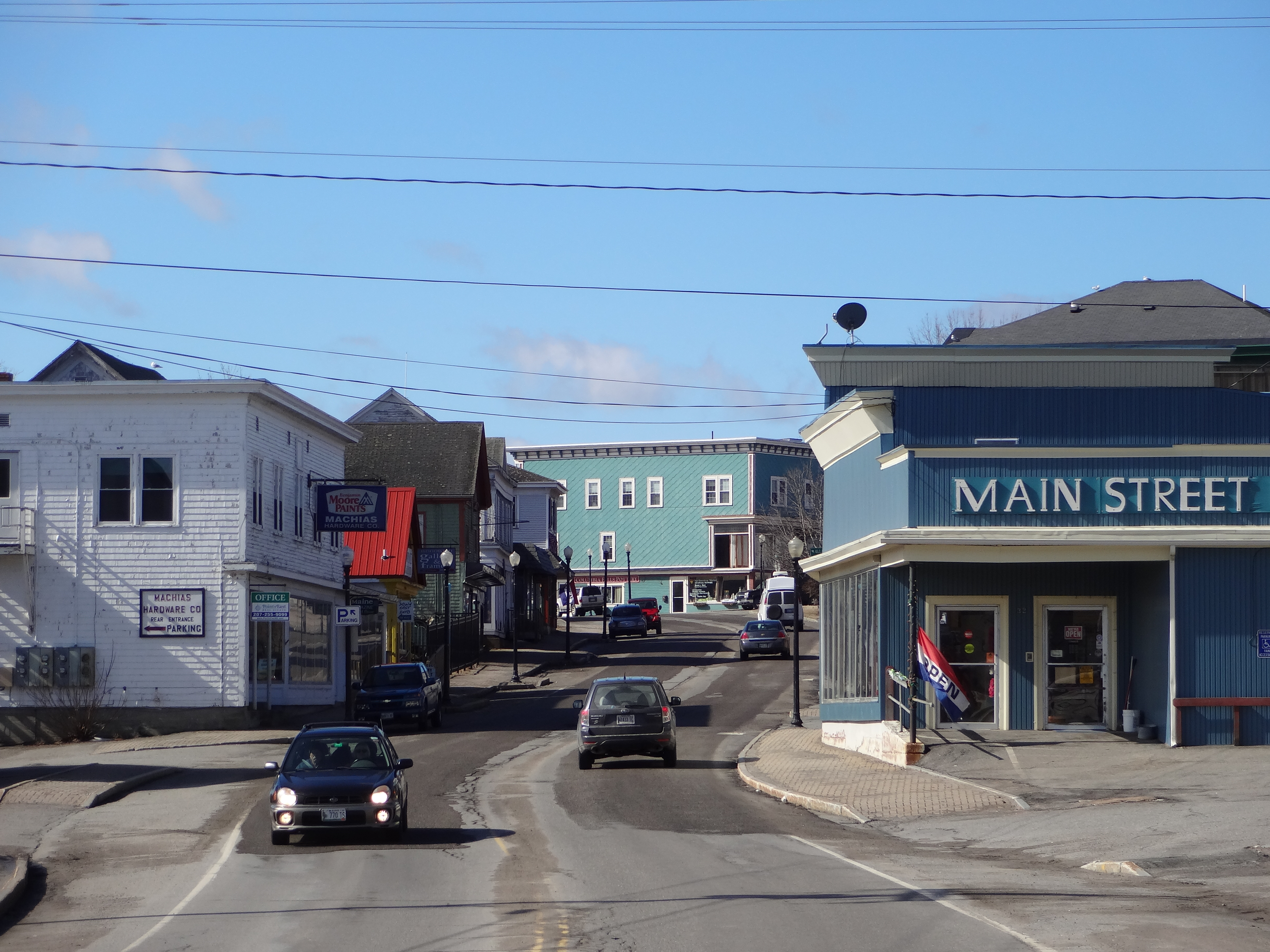 This is an image of Main Street in downtown Machias, Maine. The image is unmodified, except for image processing by the camera.